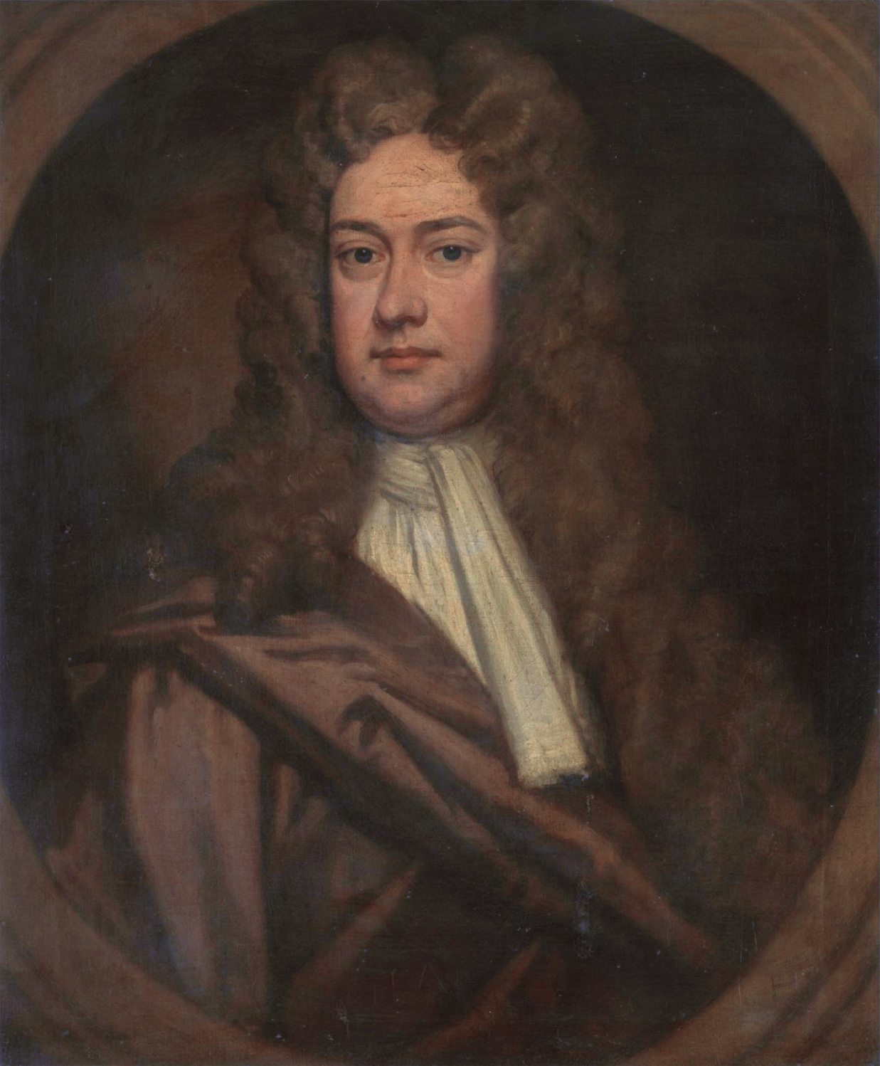 George Clarke (1661-1736) inscribed on two old labels, verso: This belongs to Lord Hyde, and: In Mary Shaw's legacy / to Lord Cornbury oil on canvas 75.5 by 62.5 cm.